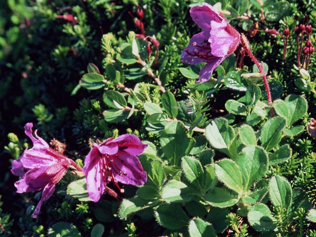 Therorhodion camtschaticum (syn. Rhododendron camtschaticum) en Furano-dake, Hokkaido, Japon. エゾツツジ、北海道・富良野岳にて撮影